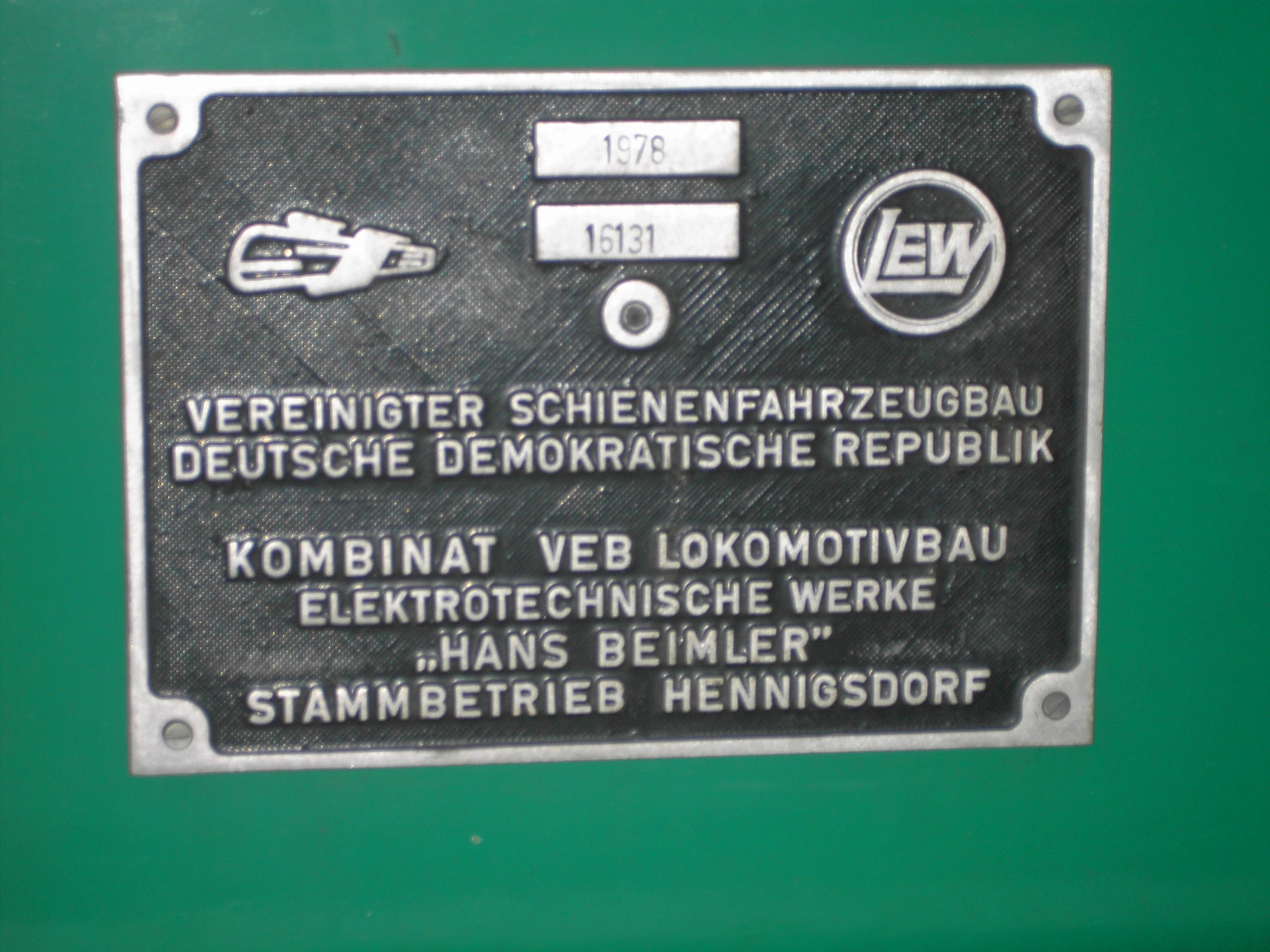 Sign on the HEV Trains in Budapest